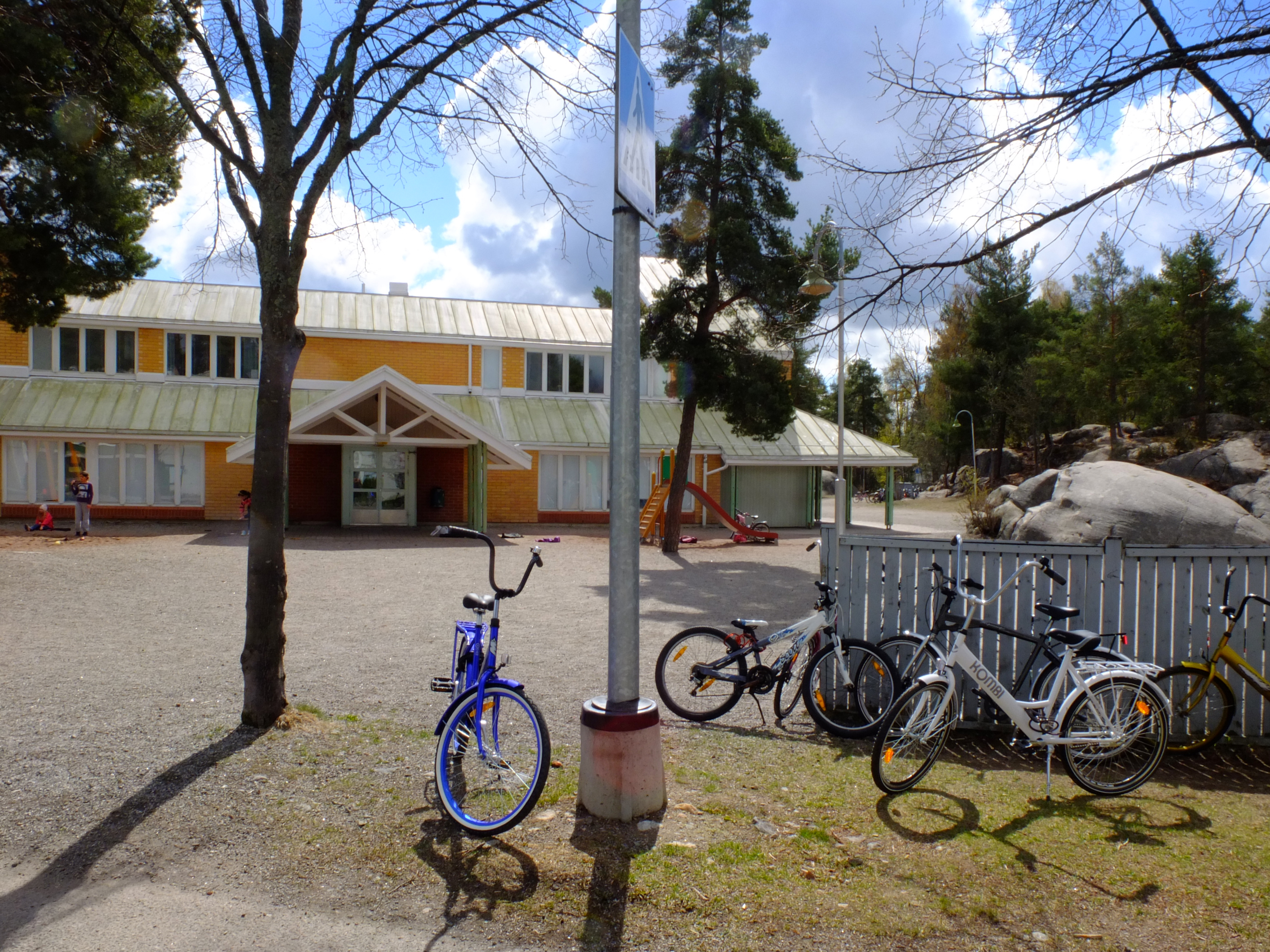 Primary/Elementary school in Friisilä near the centre of Raisio, Finland.